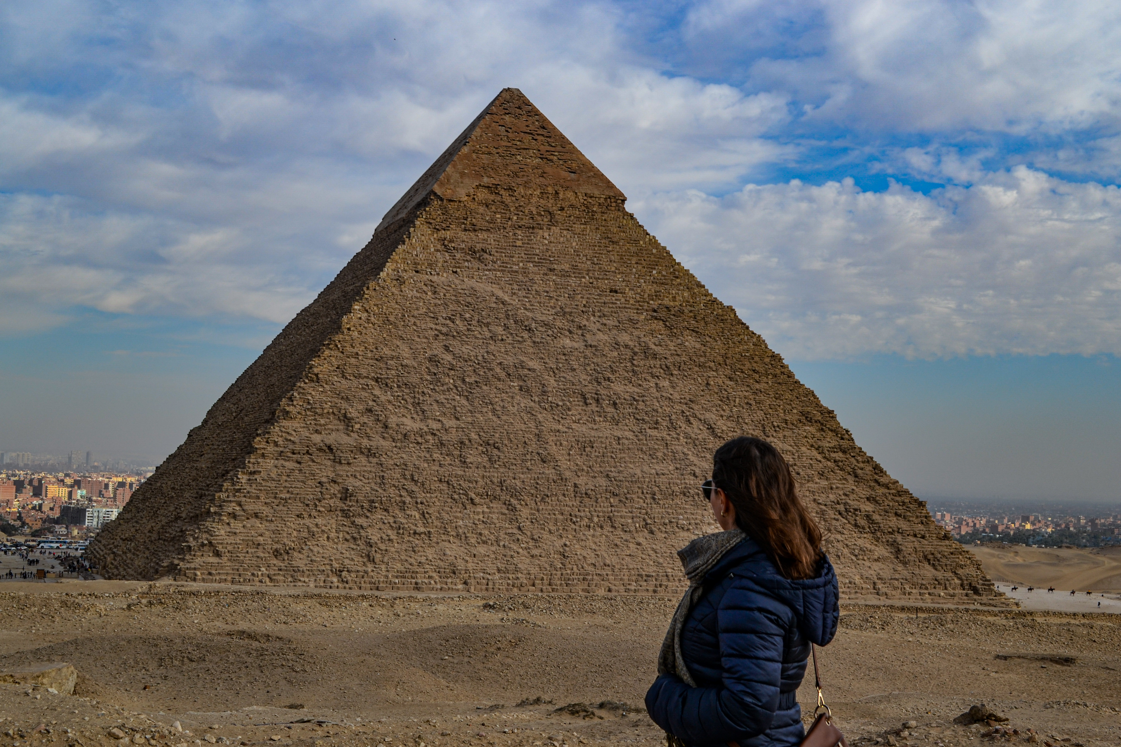 This is an image with the theme "Africa on the Move or Transport" from: Egypt